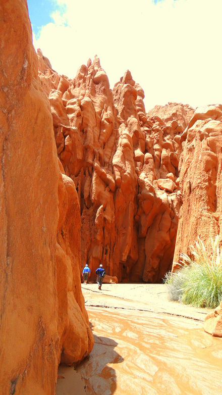 Caves of Acsibi in Salta province (Argentina).